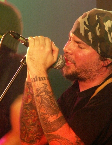 Geoff Lagadec, singer of Jaya the Cat, during a performance in Maastricht, Februari 2006.